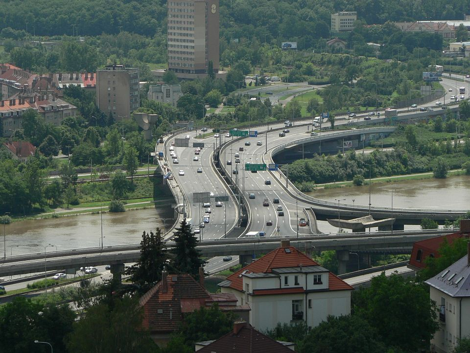 Barrandov bridge, Prague, Czech Republic